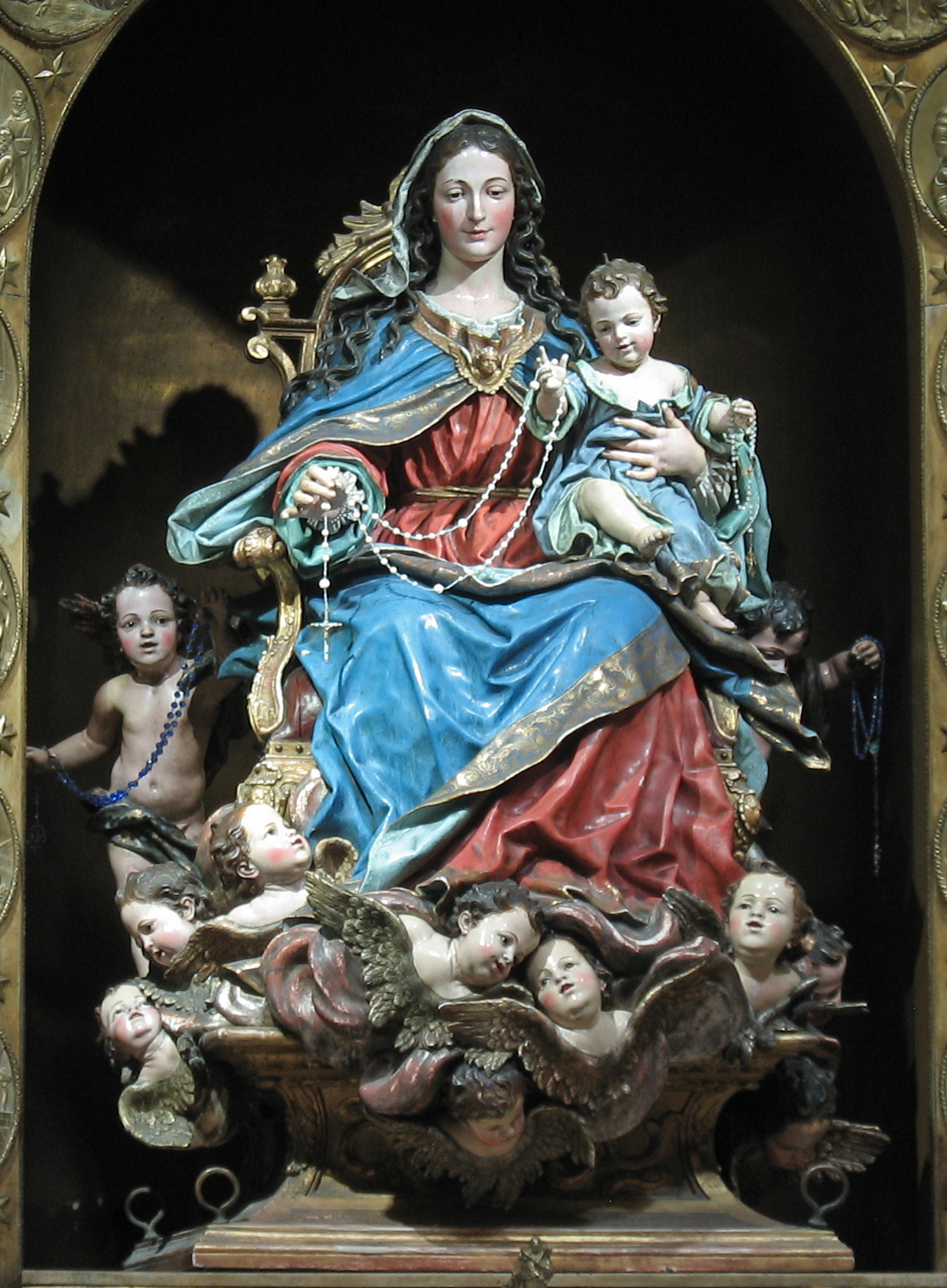 Our Lady of the Rosary by Luis Salvador Carmona. Oratory of the Olivar. Madrid